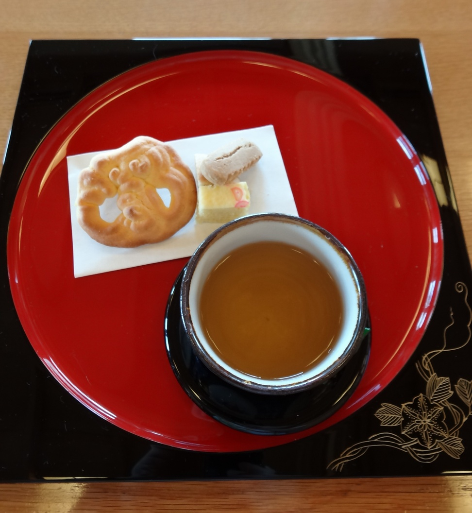 The Ryukyu Sweets and Sanpin-cha at Sasuno-ma, Shuri Castle (Okinawa Prefecture, Japan)